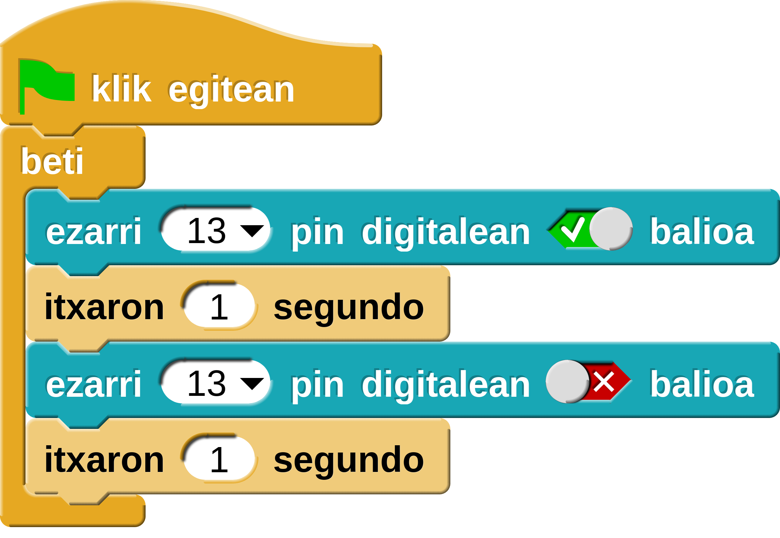 A Snap4Arduino program that switches a LED on and off repeatedly in 1 second intervals (in Basque)